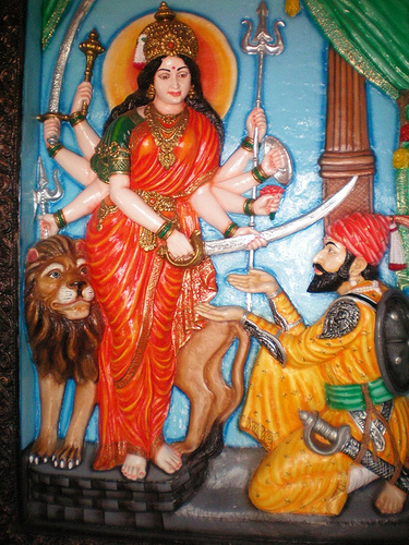 Godess Bhavani and Chhatrapati Shivaji